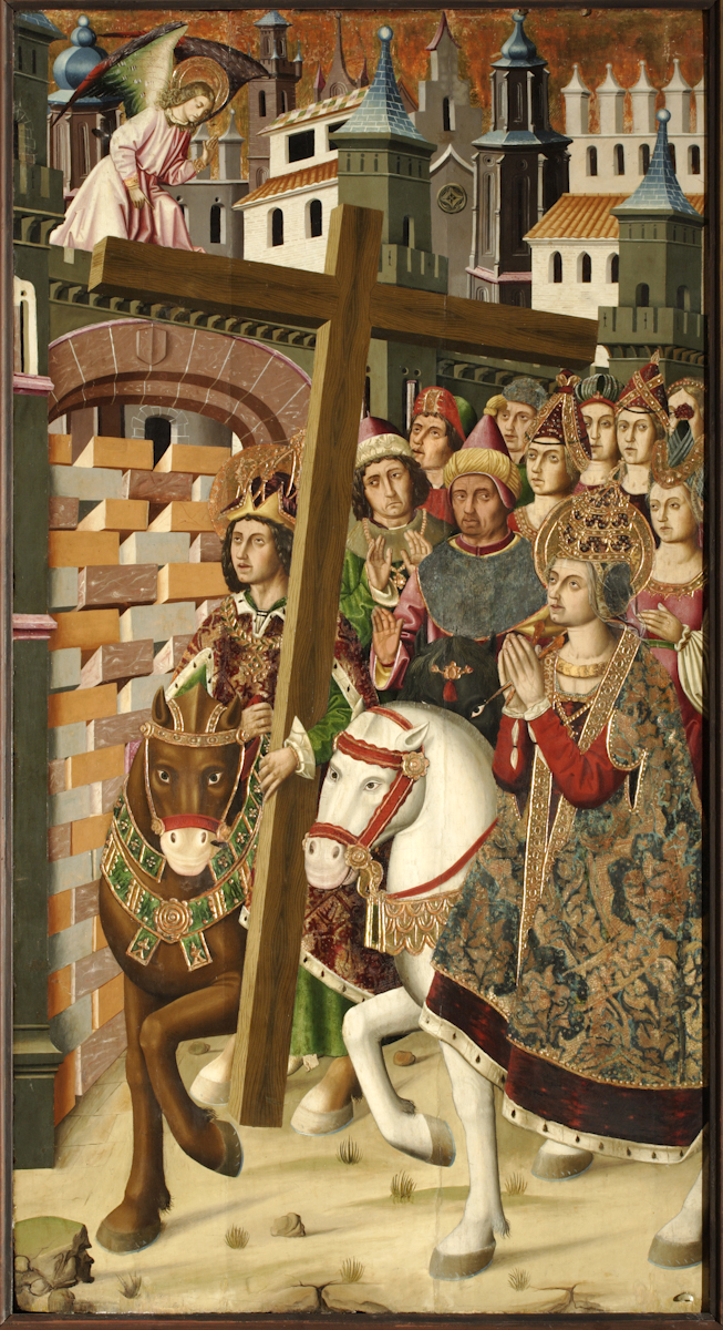 Altarpiece of the Holy Cross (Retablo de la Santa Cruz); Church of Blesa, Aragon, Spain. This panel shows Saint Helena and, anachronistically, Byzantine Emperor Heraclius taking the True Cross to Jerusalem. Helena wears a trigregnum, symbolizing that she represents the Catholic Church in her veneration of the True Cross. Spanish-gothic style; oil on wood, c.1481-1487.